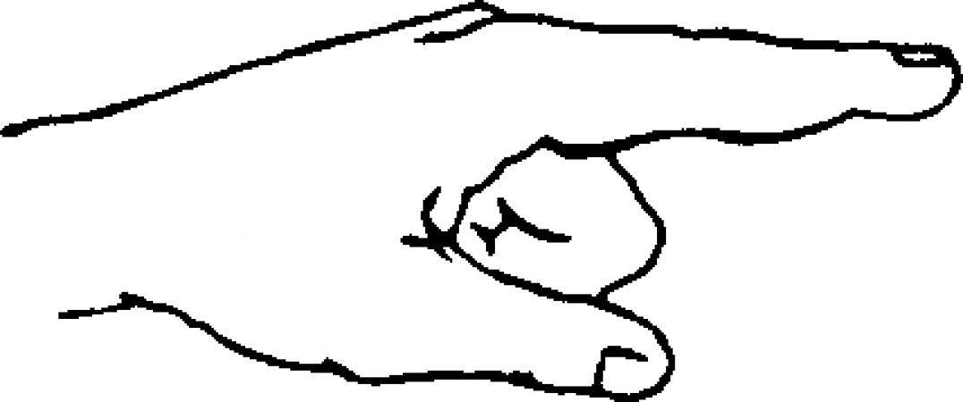 Ground hand signals. "Ready to fire: clear and ready to fire, indicated by pointing downridge."